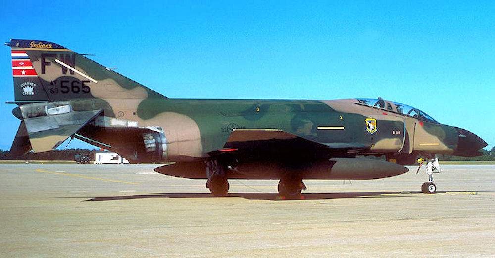 163d Tactical Fighter Squadron - McDonnell F-4C-19-MC Phantom 63-7565. Retired and placed on static display at Indiana ANG, Stout Field, Indiana